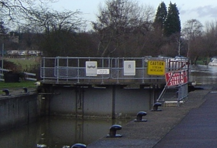 Photo of locks and weirs on the River Thames